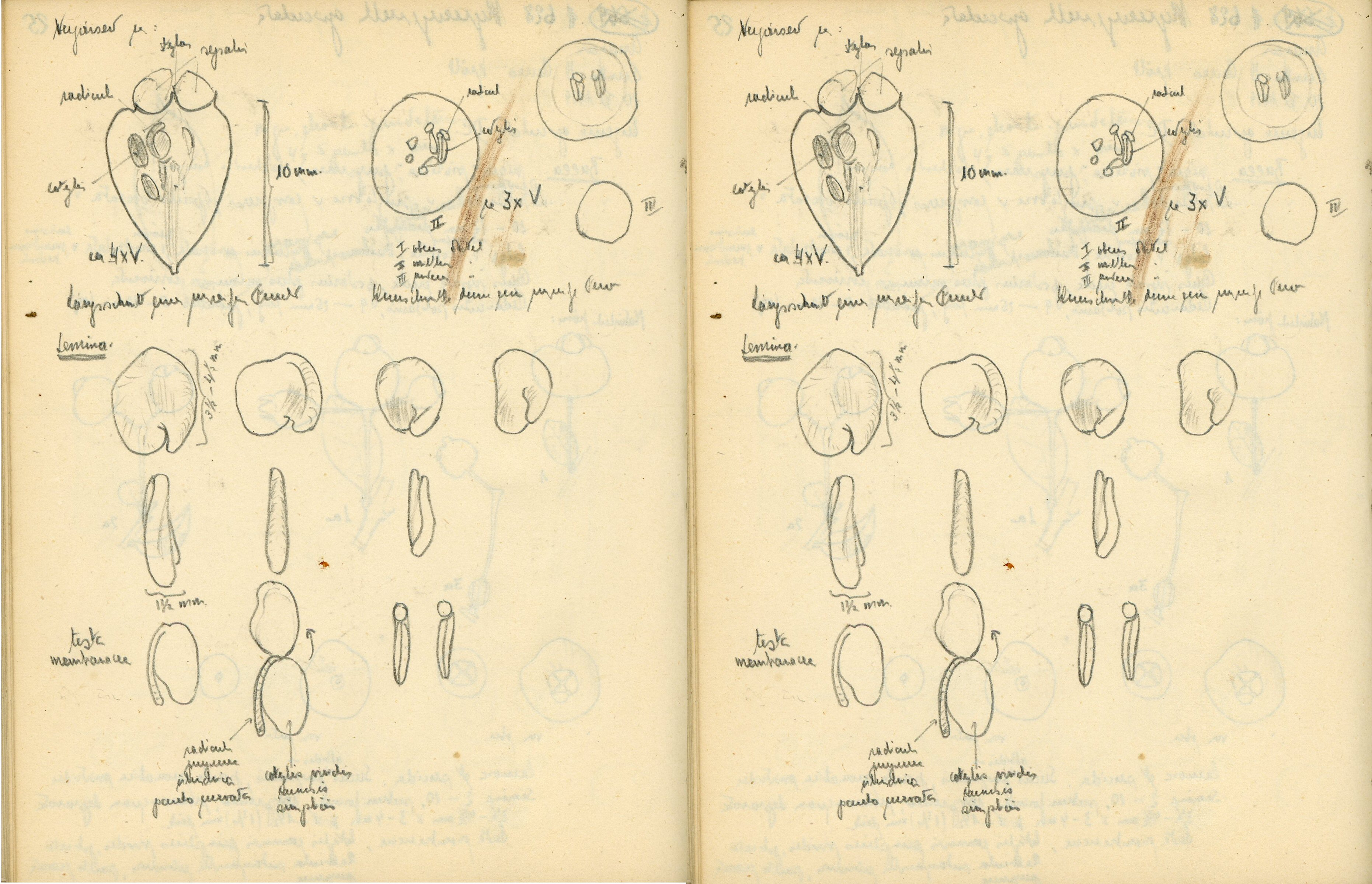 These drawing are part of an extensive collection of botanical sketches drawn in the years 1935-1955 by the late Chilean botanist Eberhard Kausel